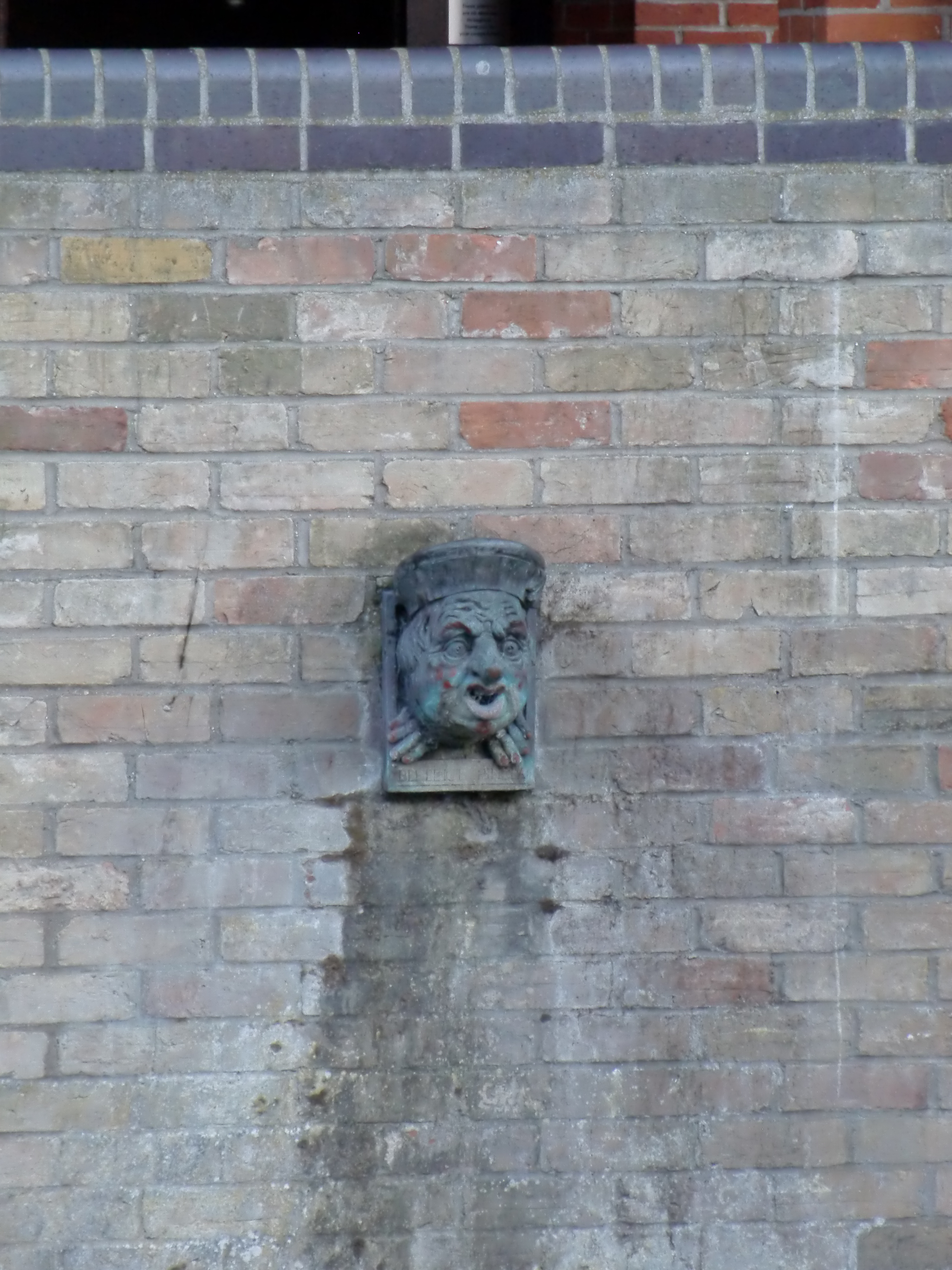 The gargoyle of Benedict Spinola at the Quayside site of Magdalene College.